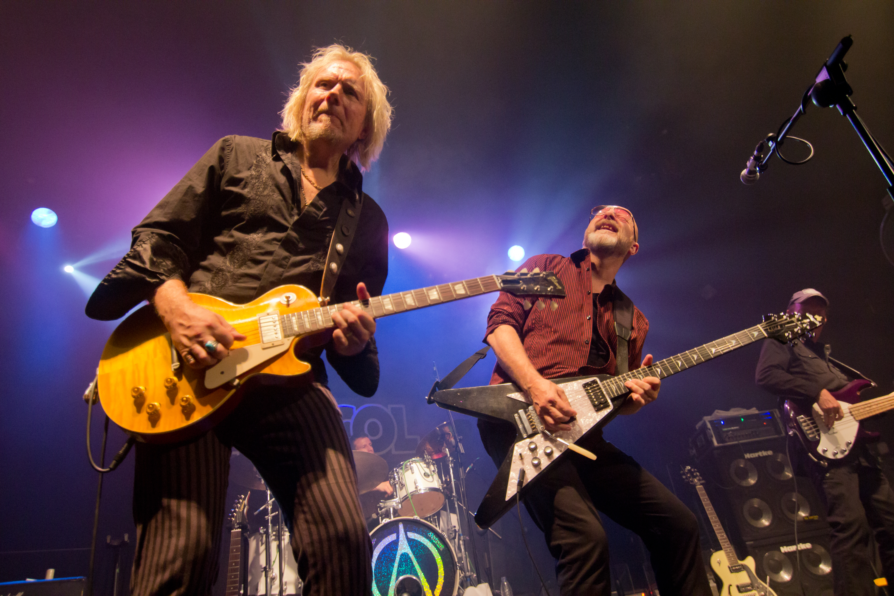 Rock band Wishbone Ash live in Madrid, Spain.